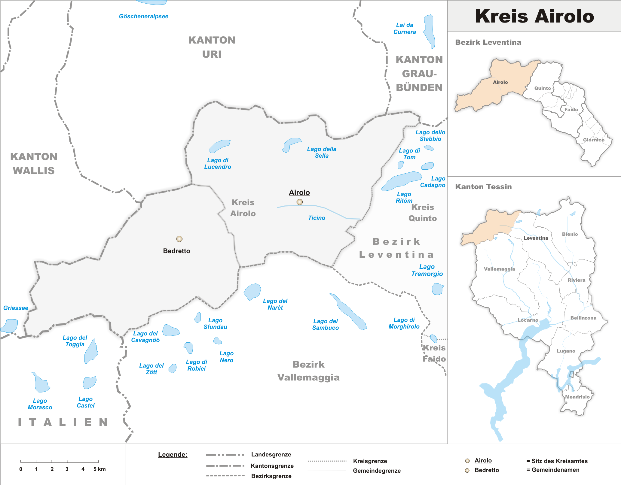 Municipalities in the circle of Airolo